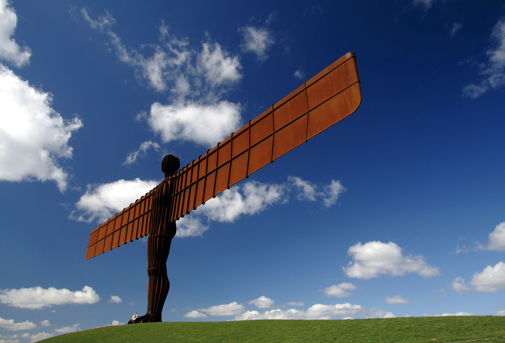 The Angel of the North near Gateshead, Tyne & Wear, England.